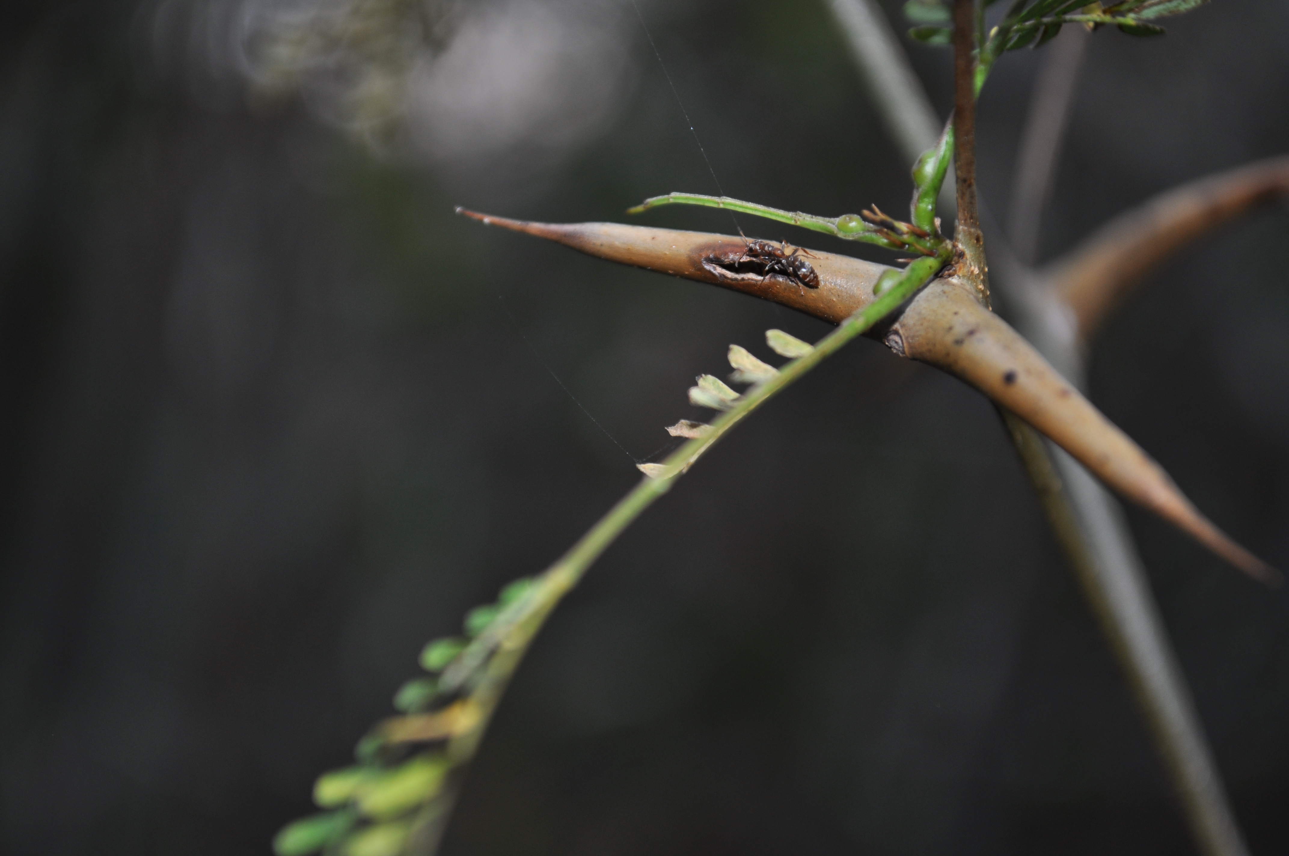 Pseudomyrmex sp. and Acacia cornigera or collinsii mutualism Merida, Yucatan, Mexico Today I went back to the thorn forest and found this other example of mutualism and co-evolution. The thorns of this plant are hollow, and their sole purpose is to shelter this species of ants. The ants will chew on the thorns so that they can get inside, they will then colonize the whole plant, feed on the "Beltan bodies" (Which are found in the tips of each leaflet and are rich in lipids and proteins) and in change, they will protect the plant from any other organism, including other plants. Also, the ants will even destroy the seeds which are left around the tree, in order to reduce competition. The thing that strikes me the most about this picture is the spider silk that you can see in the background. When I got home I did some research and found out that the vegetarian jumping spider "Bagheera kiplingi" lives in this plants, and tries to dodge the ants in order to feed on the Beltan bodies. Tomorrow I'll try to see if I can spot some of this spiders! Unfortunately, I did not try to today.